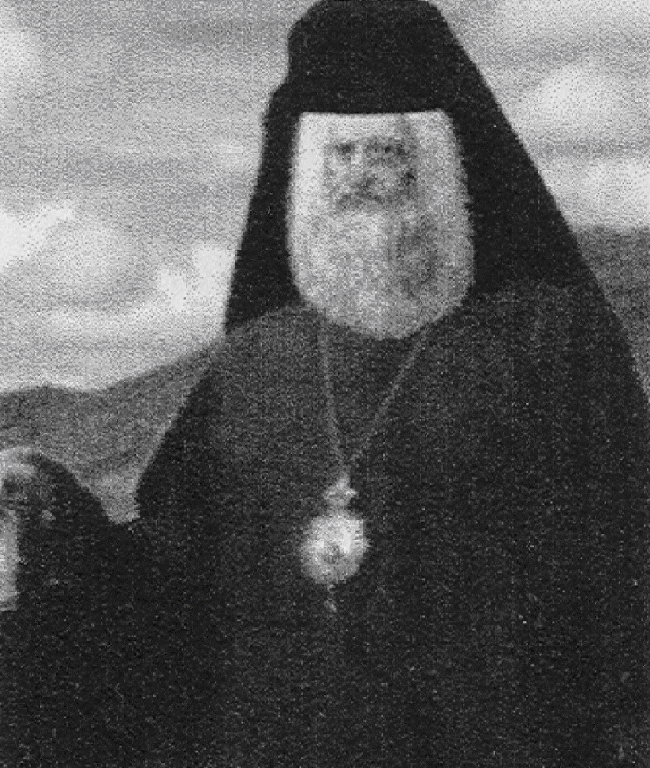 This is a faithful photographic reproduction of a two-dimensional, public domain work of art. The work of art itself is in the public domain for the following reason: This work is in the public domain in its country of origin and other countries and areas where the copyright term is the author's life plus 100 years or fewer. You must also include a United States public domain tag to indicate why this work is in the public domain in the United States. This file has been identified as being free of known restrictions under copyright law, including all related and neighboring rights. The official position taken by the Wikimedia Foundation is that "faithful reproductions of two-dimensional public domain works of art are public domain".This photographic reproduction is therefore also considered to be in the public domain in the United States. In other jurisdictions, re-use of this content may be restricted; see Reuse of PD-Art photographs for details.